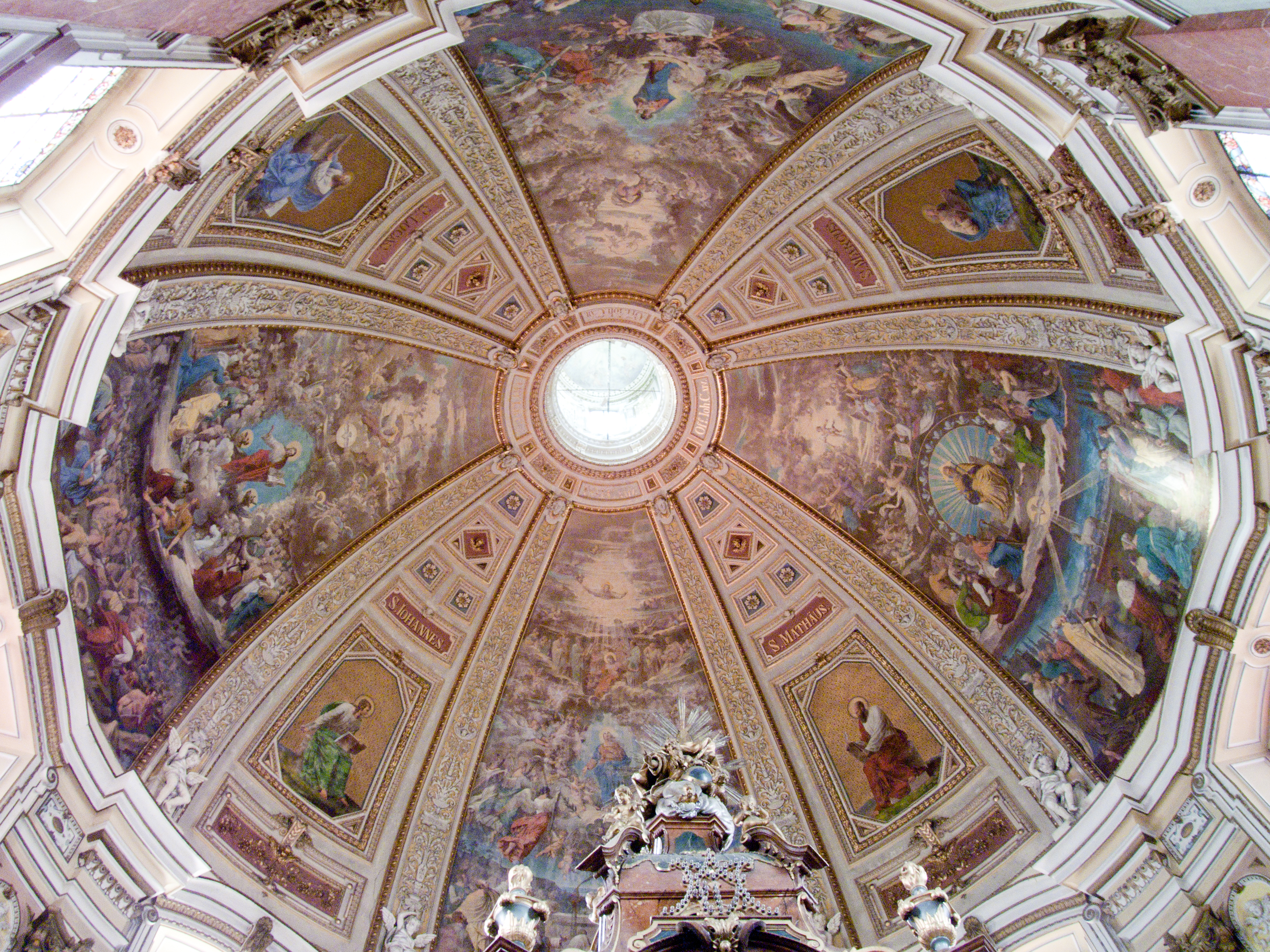 Ceiling in the Nativity of Mary Chapel in the town of Česká Kamenice, (Czech Republic)